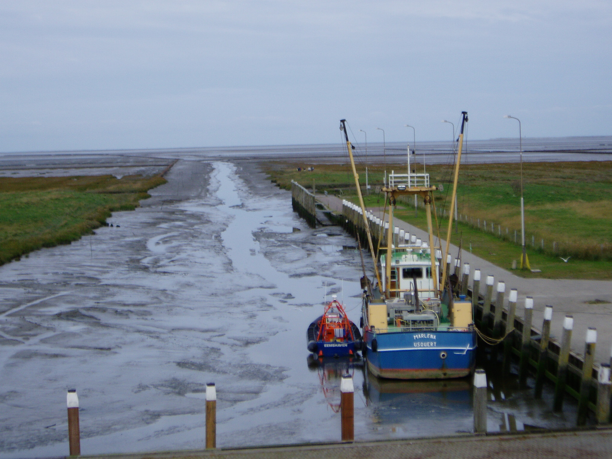 At low tide.